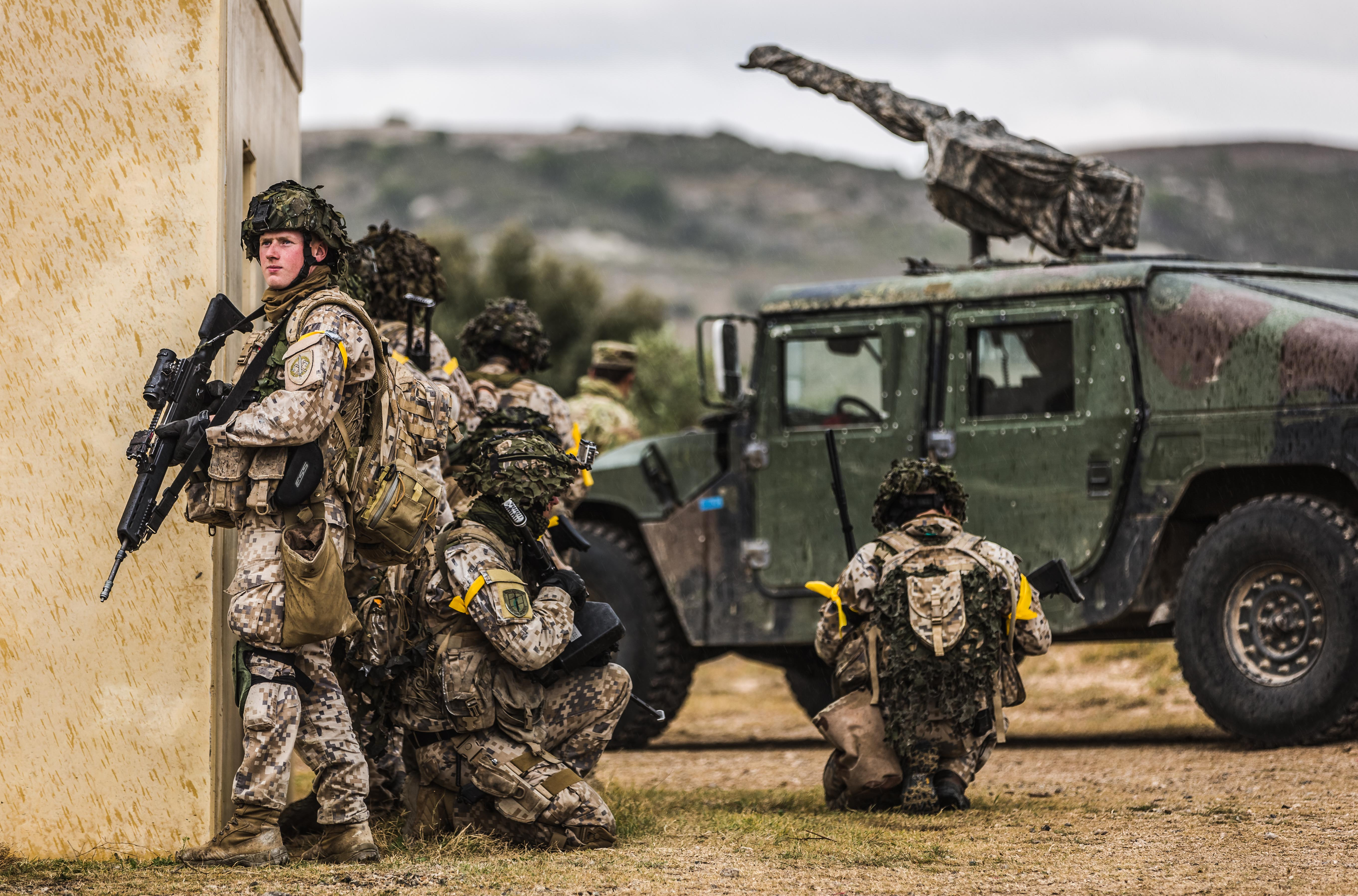 Latvian soldiers from the Baltic Battalion at San Gregorio training area, Spain on October 27, 2015 during NATO exercise Trident Juncture 15. (Photo: Eriks Kukutis)